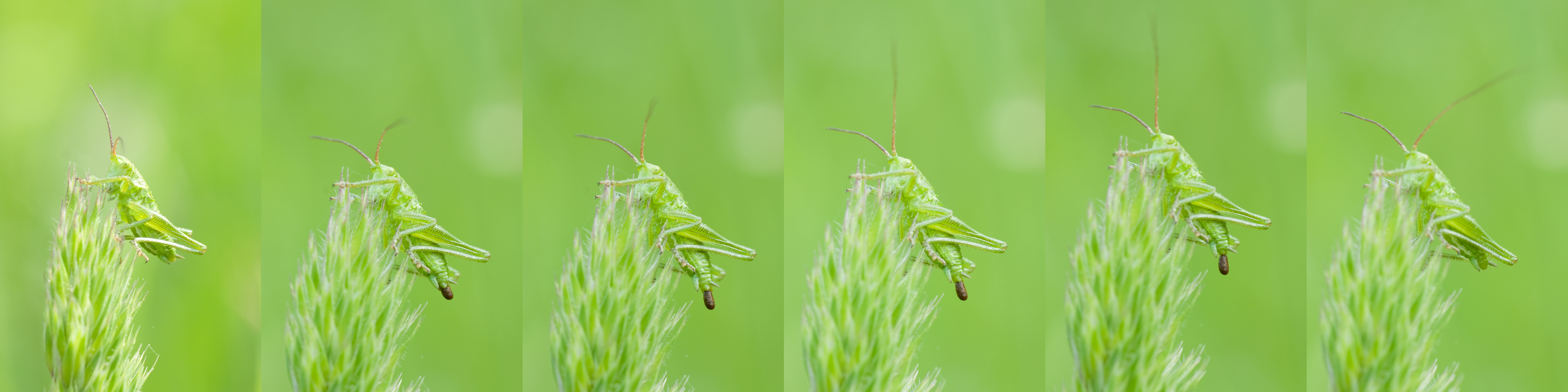 A not closer identified grasshopper nymph defecating. Collage of 6 pics taken in ~1 minute. The size of the nymph was ~10mm.